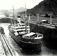 SS Cuba going through Panama Canal, Sept. 1923